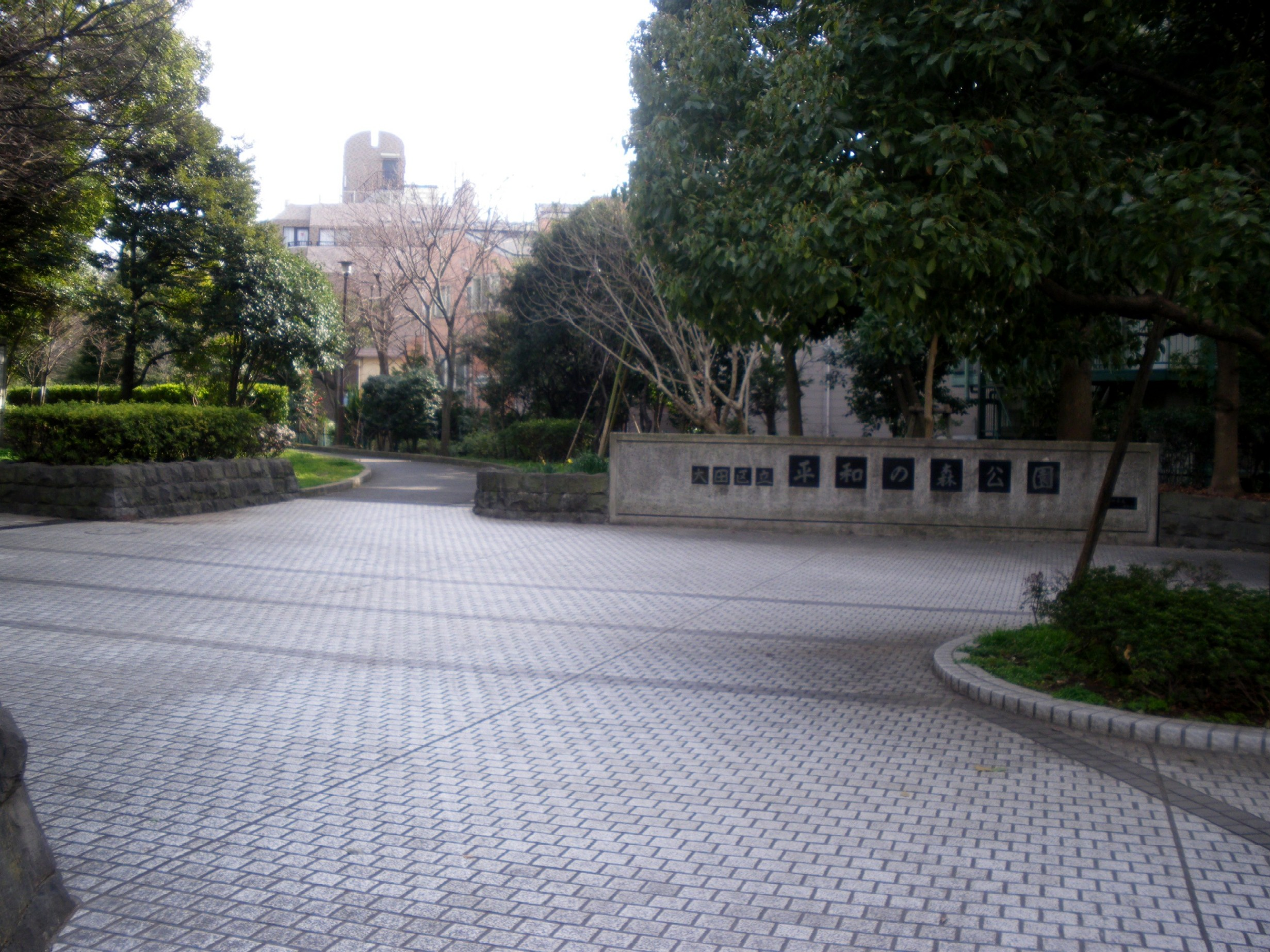 the entrance of Heiwa No Mori Park(Ota).